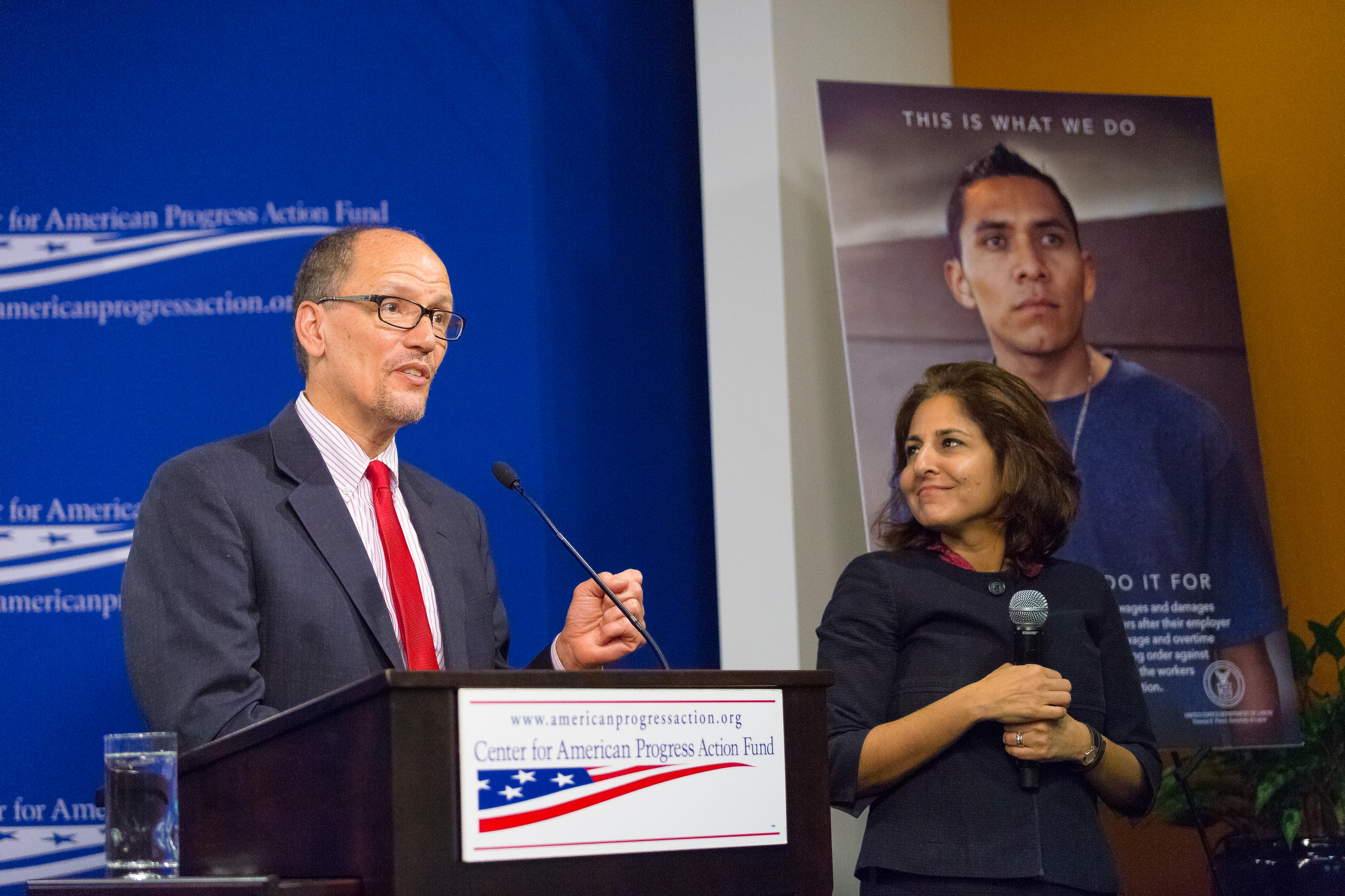 4th December 2014 WASHINGTON, D.C. - U.S. Department of Labor Secretary Thomas Perez addresses the Center for American Progress (CAP) Wage Event highlighting the need for enforcement of existing wage standards. Neera Tanden President of Center for American Progress(right) Official Department of Labor Photograph*** This official Department of Labor photograph is being made available only for publication by news organizations and/or for personal use printing by the subject(s) of the photograph. The photograph may not be manipulated in any way and may not be used in commercial or political materials, advertisements, emails, products, and/or promotions that in any way suggest approval or endorsement of the Secretary, or the Department of Labor. Photo Credit: Department of Labor Shawn T Moore